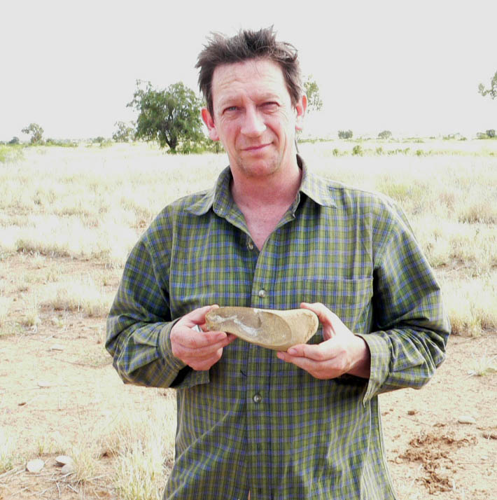 Dr John Long in the field at the Gogo fossil site, holding recently found fossil shark, July 2005